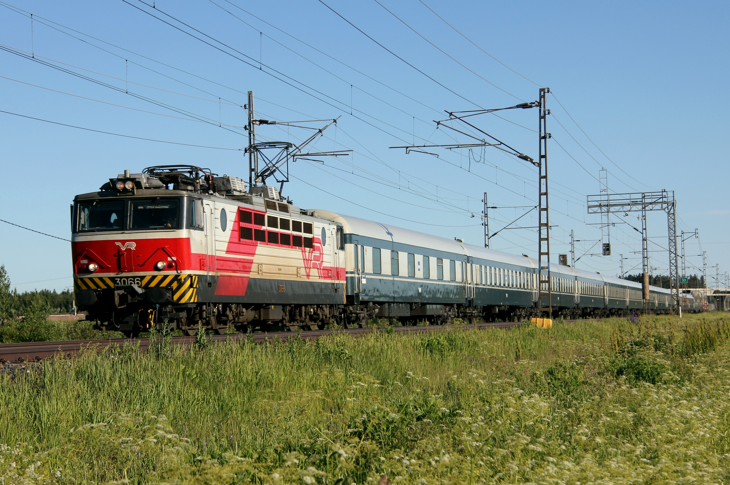 VR Sr1 3066 and the night train 263 Helsinki–Kolari on Helsinki–Riihimäki railway line in Tuusula, Finland.